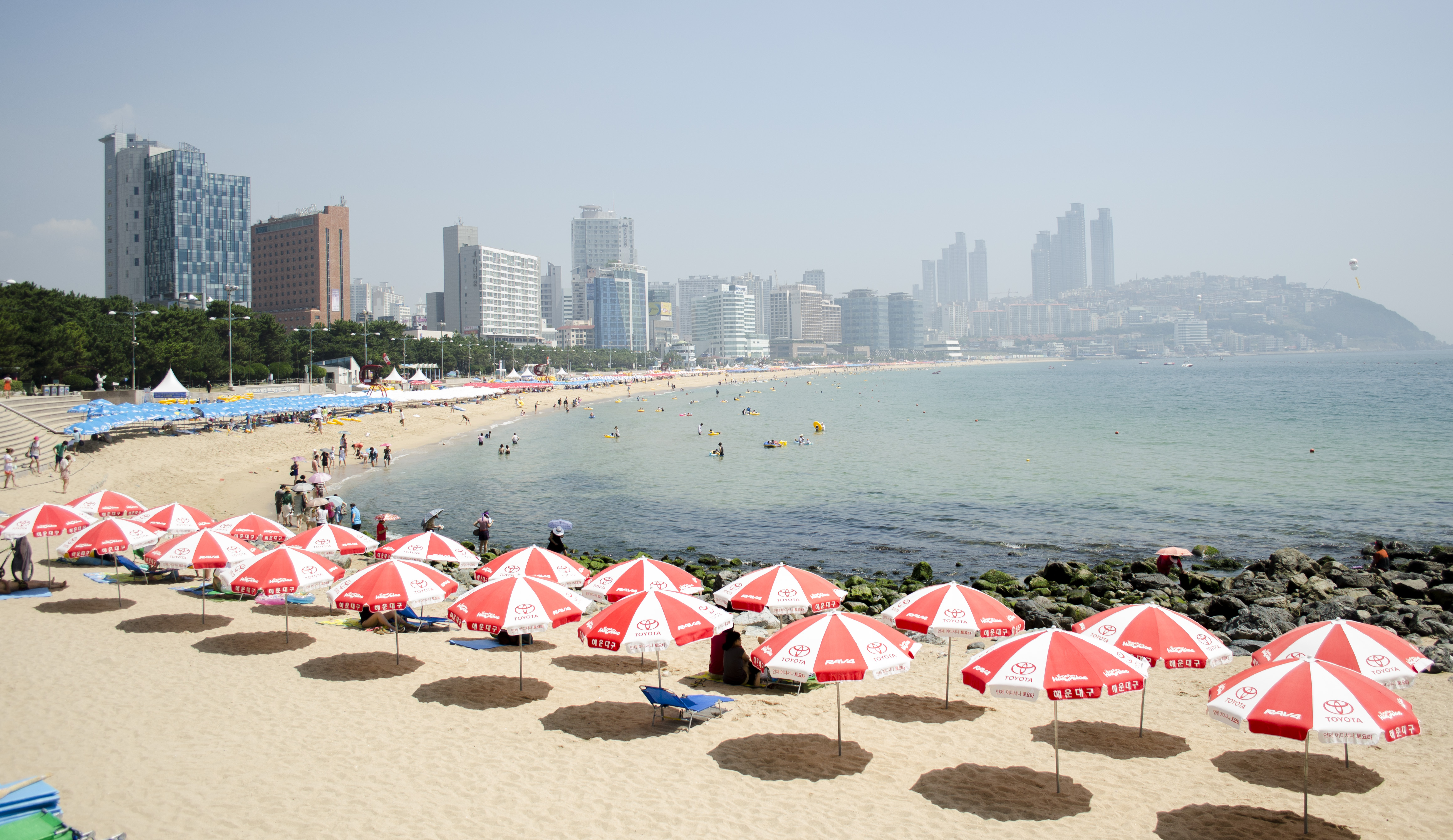 Haeundae Beach in Busan, South Korea. Photograph from Flickr; author StephNurnberg; license of cc by 2.0.